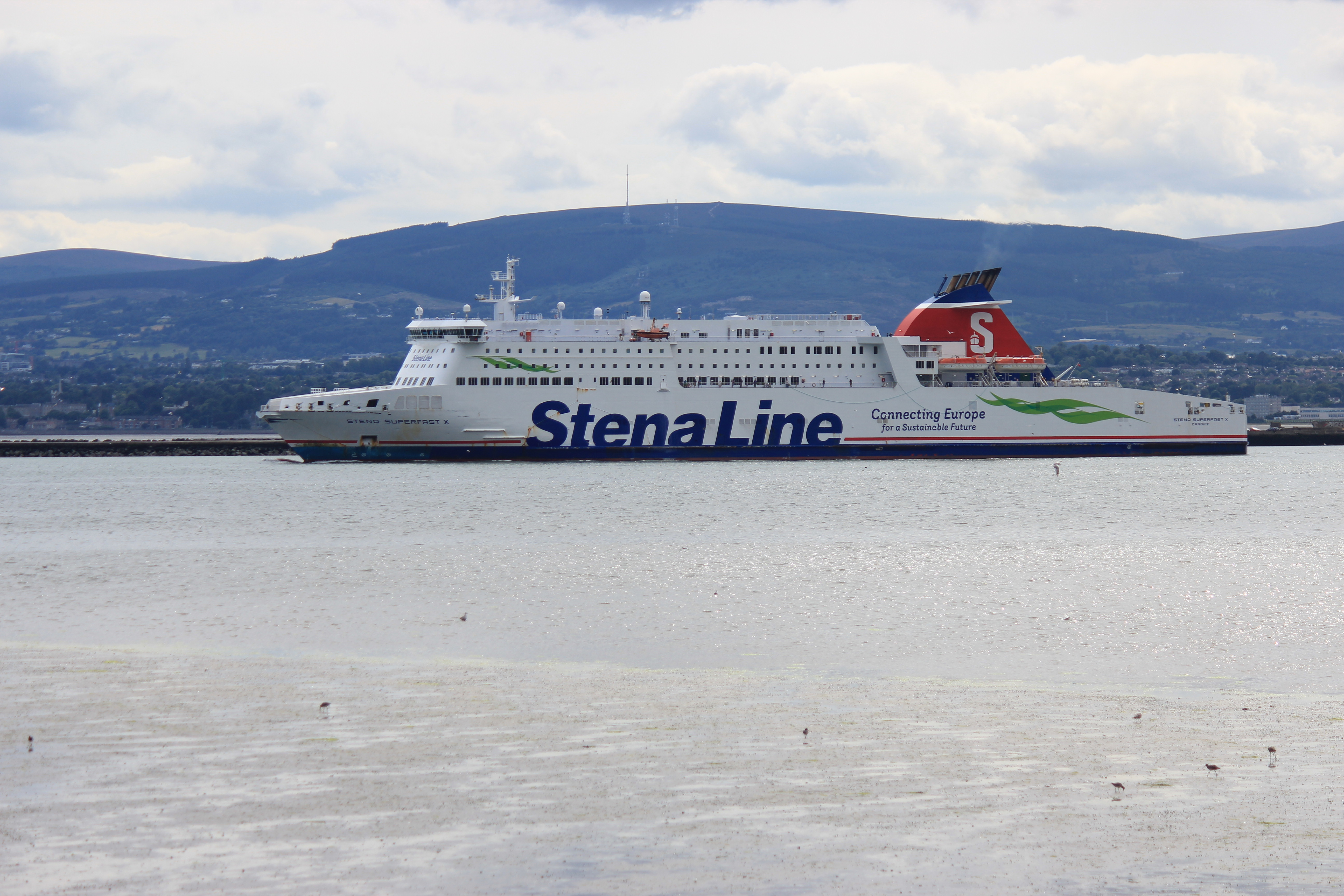 Stena Superfast X leaving Dublin Port in August 2018 bound for Holyhead.